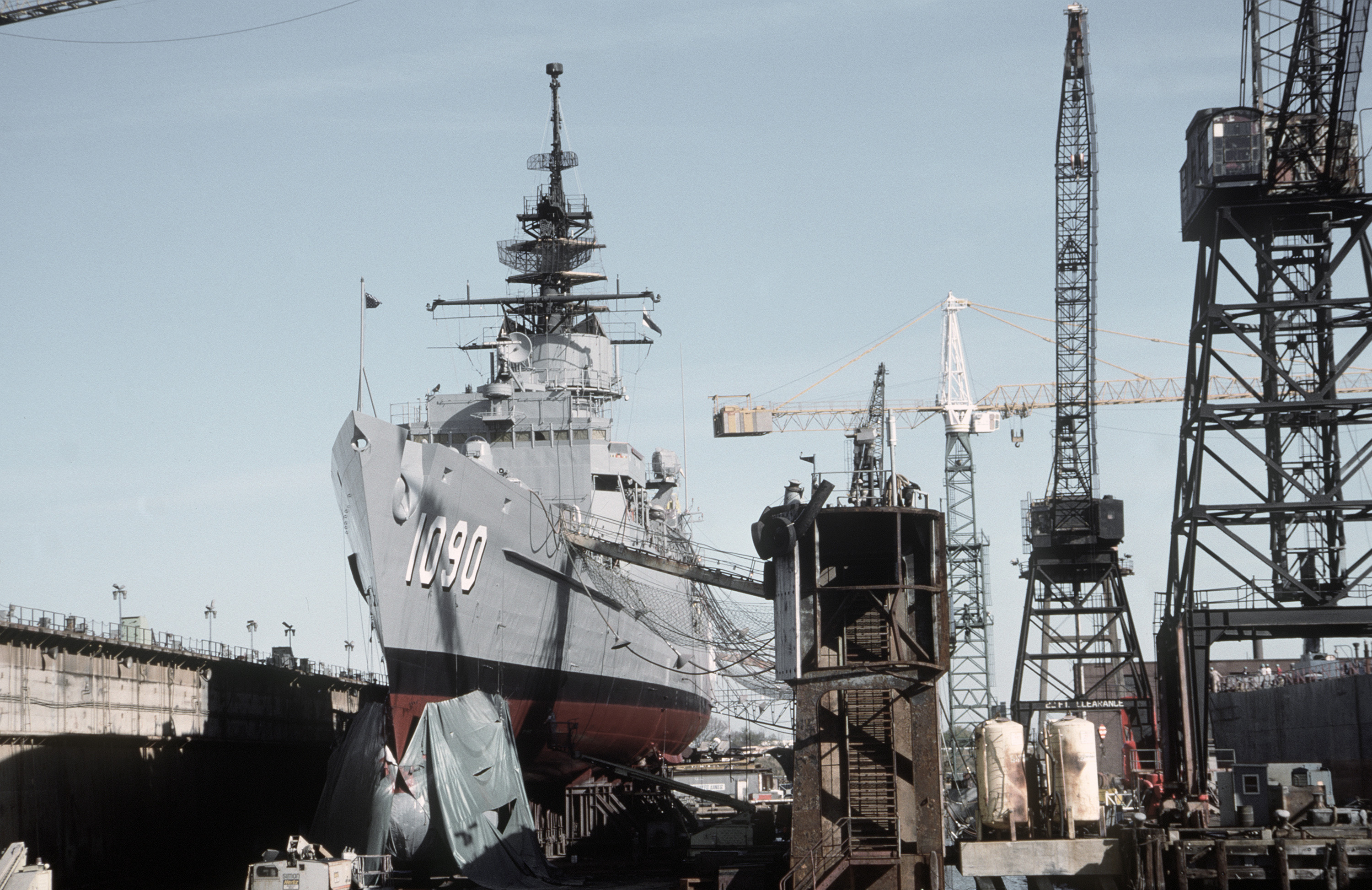 A port bow view of the frigate USS AINSWORTH (FF 1090) undergoing overhaul in a floating dry dock at the Norfolk Shipbuilding and Dry Dock Company.